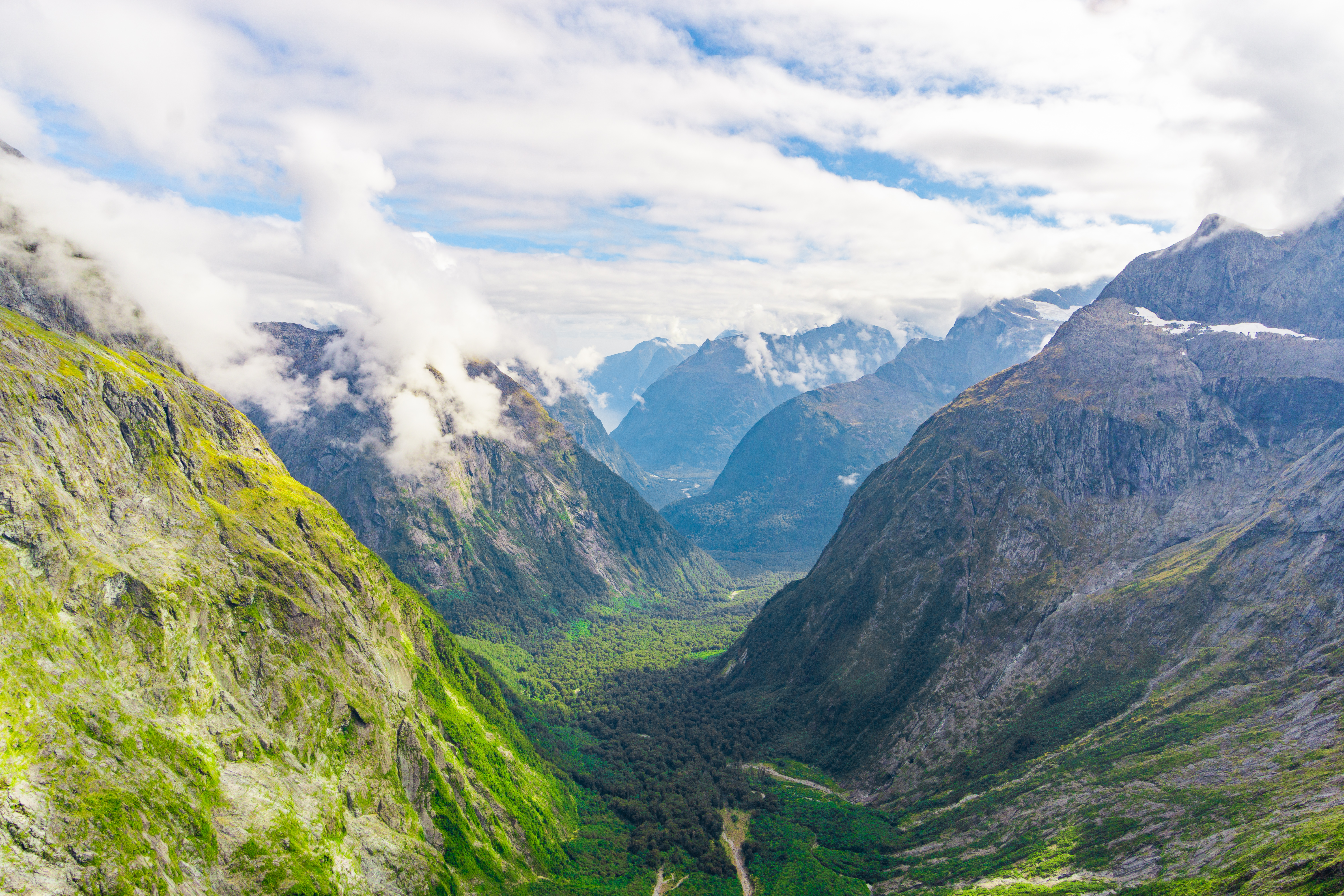 View from the top of Gertrude's Saddle